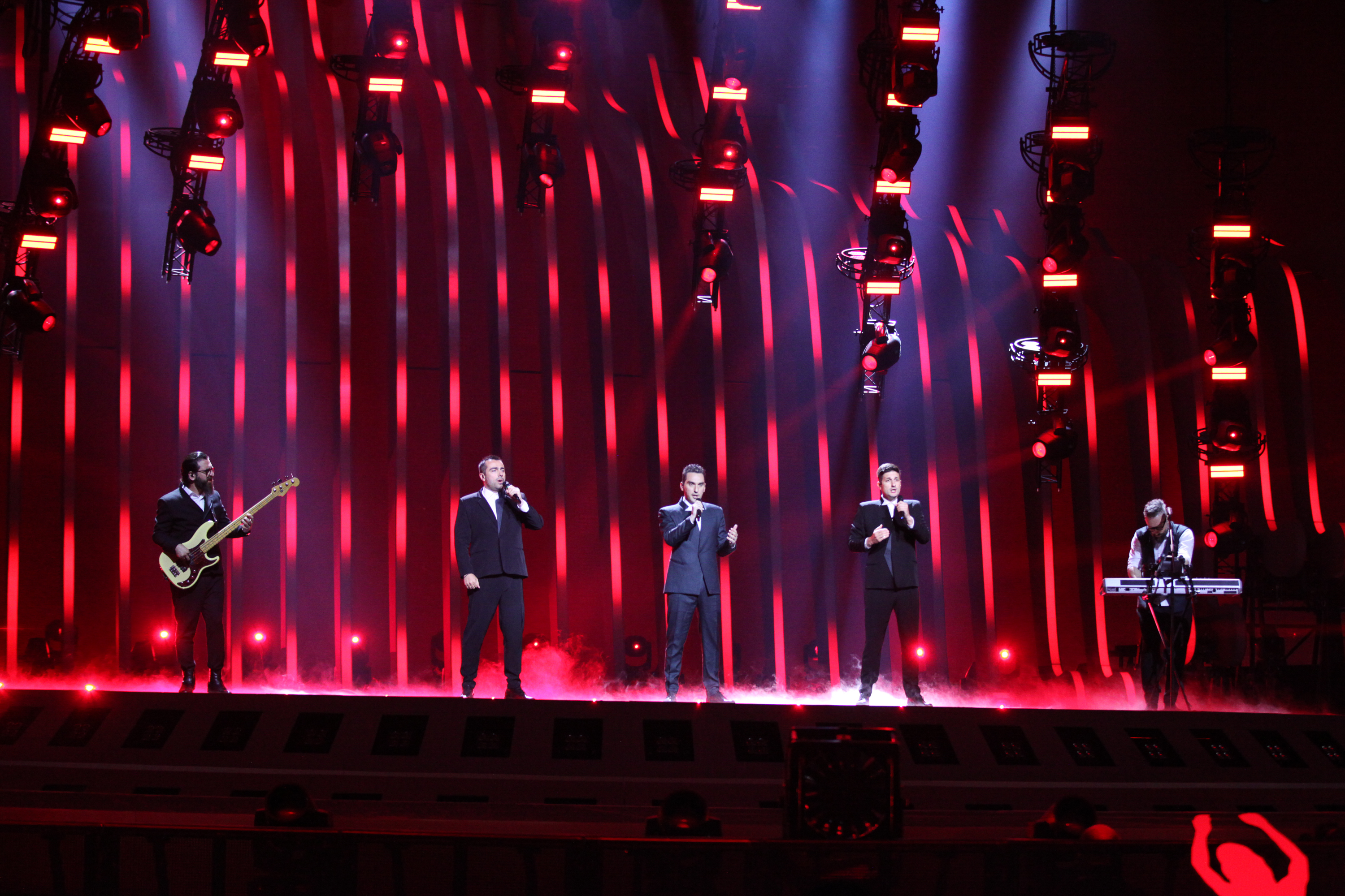 Ethno-Jazz Band Iriao representing Georgia with the song "For You" during a rehearsal before the second semi final of the Eurovision Song Contest 2018 in Lisbon.